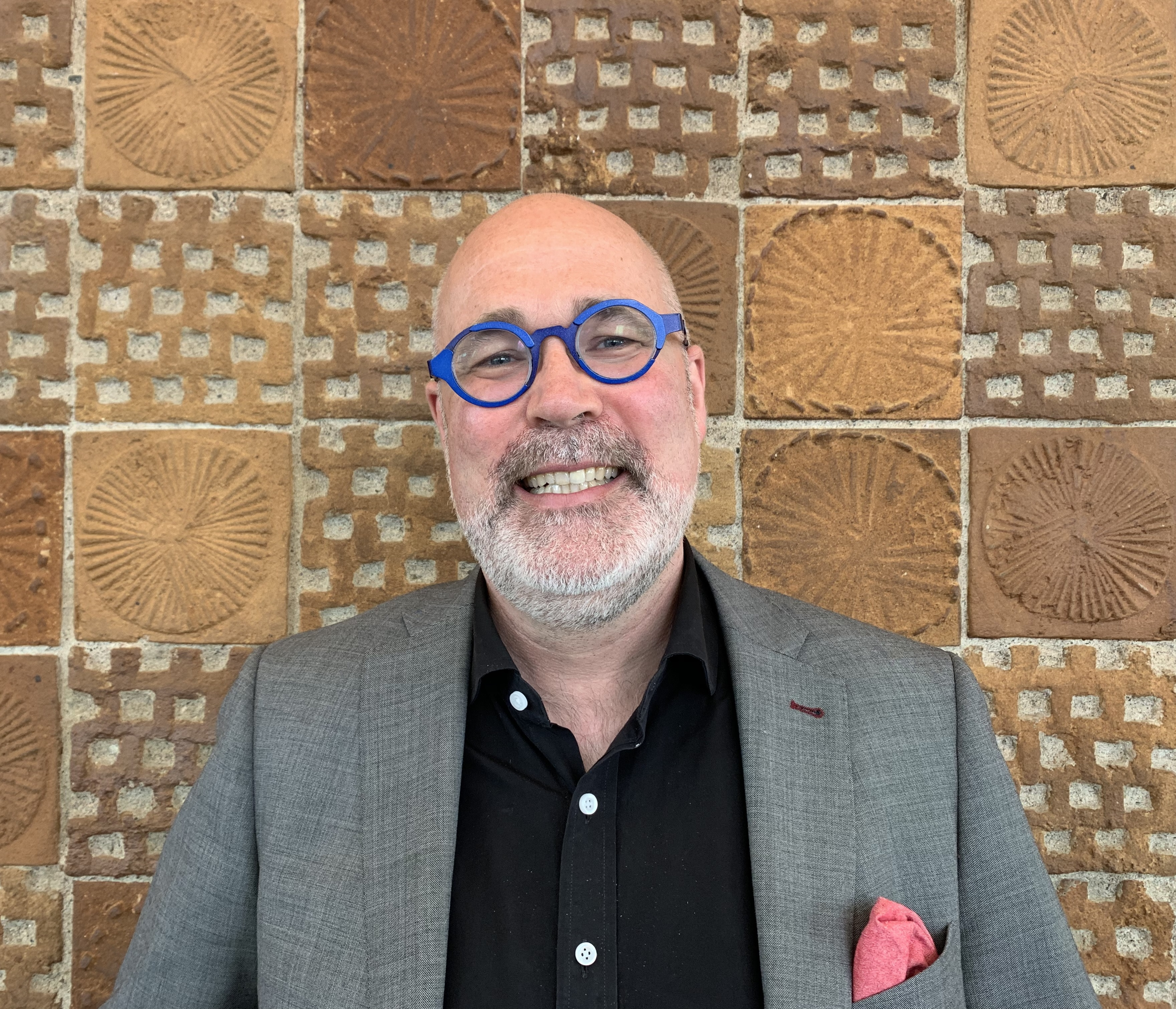 Mark Surman during the Stockholm Internet Forum (May 2019).